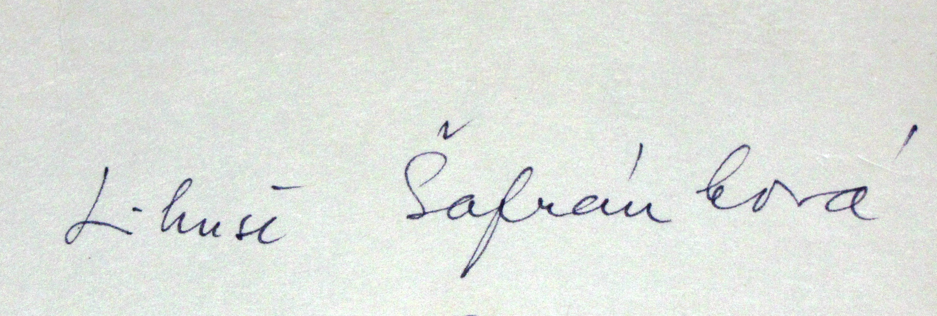 Signature of Libuše Šafránková, Czech actress (1988)